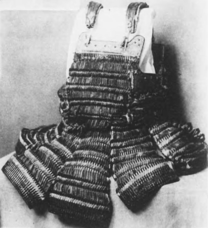 A haramaki armour made in Nambokucho-Muromachi period at Kongoji, Kawachinagano, Osaka prefecture. An Important Cultural Property of Japan.